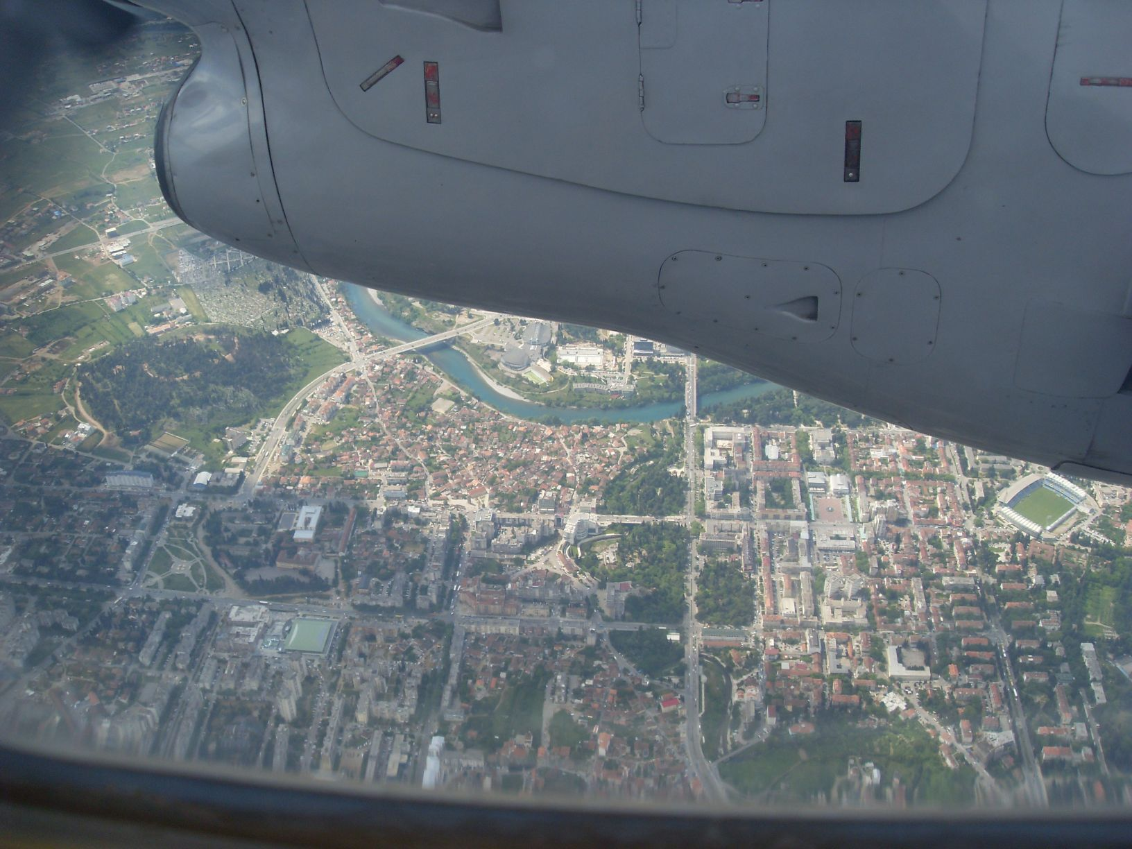 City centre of Podgorica from above Crnogorski: Centar Podgorice iz zraka.